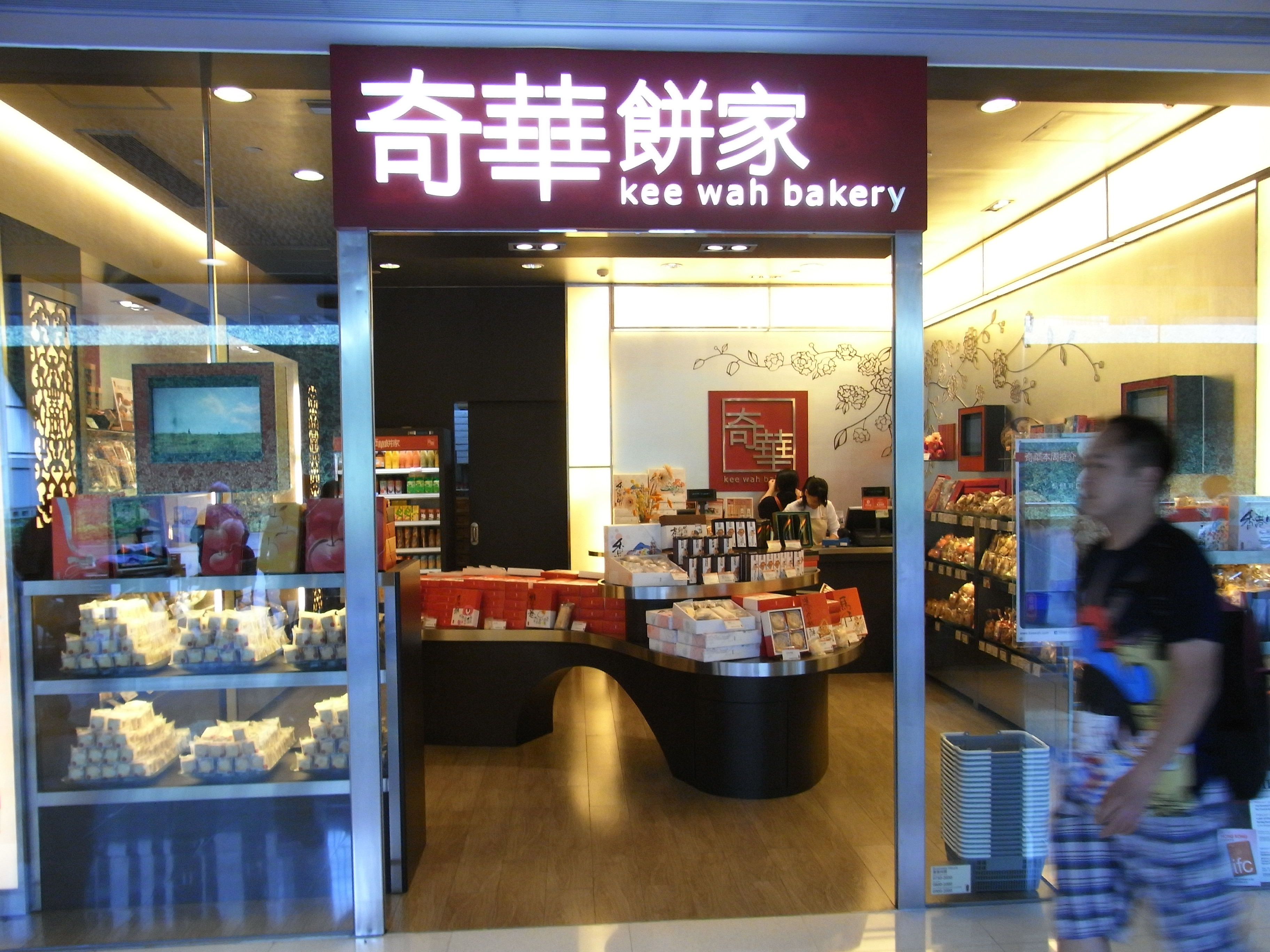 Shop in IFC Mall, Central, Hong Kong